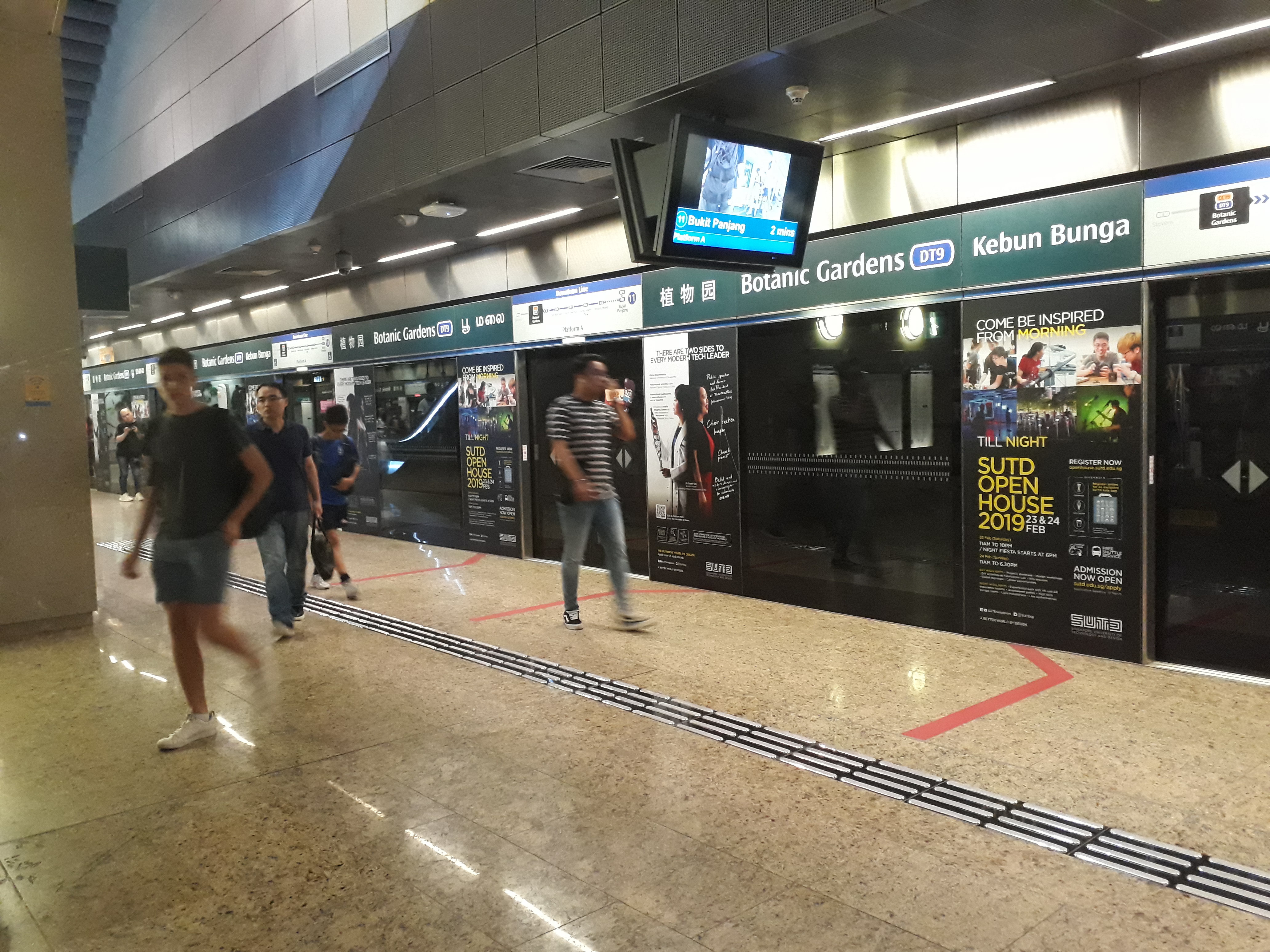 DTL PLatform of Botanic Gardens